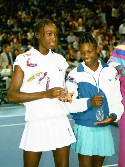 Pam Shriver event Baltimore on left ....Wash D.C. Charity on right Copyright John Mathew Smith 2001